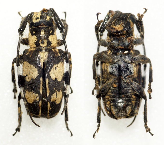 Hüdepohl,1989 Sex: ? Data: 08-2013 - Belance - Nueva Vizcaya - North Luzon - Philippines Size: ?